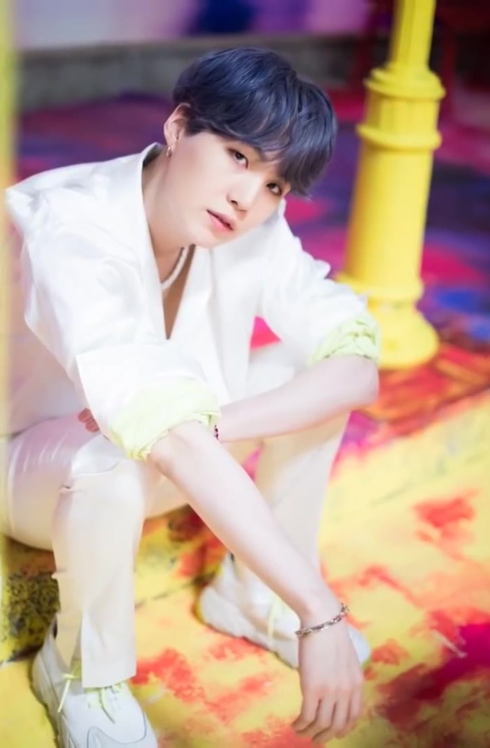 Suga for Dispatch "Boy With Luv" MV behind the scene shooting, 15 March 2019